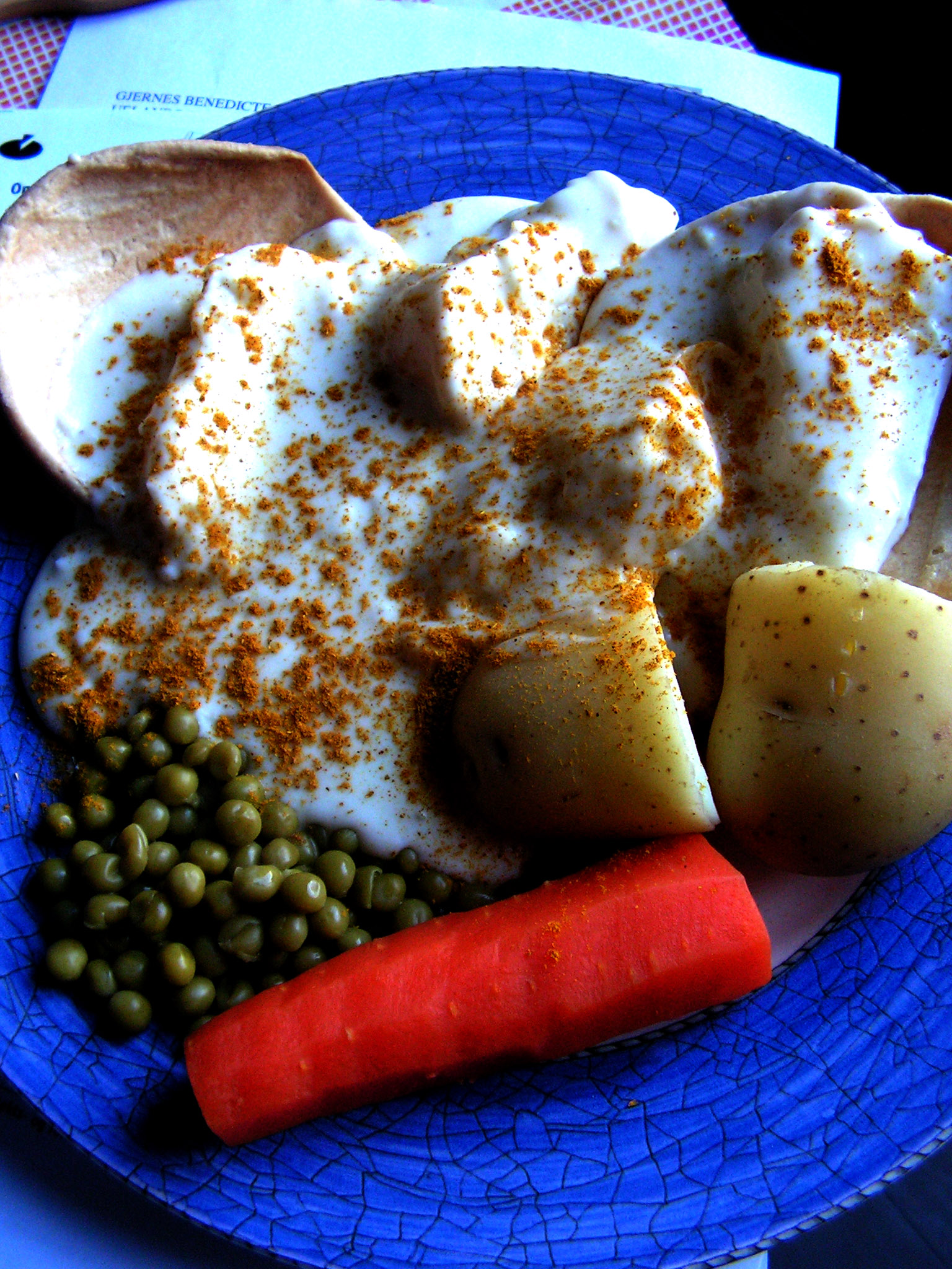 Fiskepudding with fish, crustaceans and wegetables